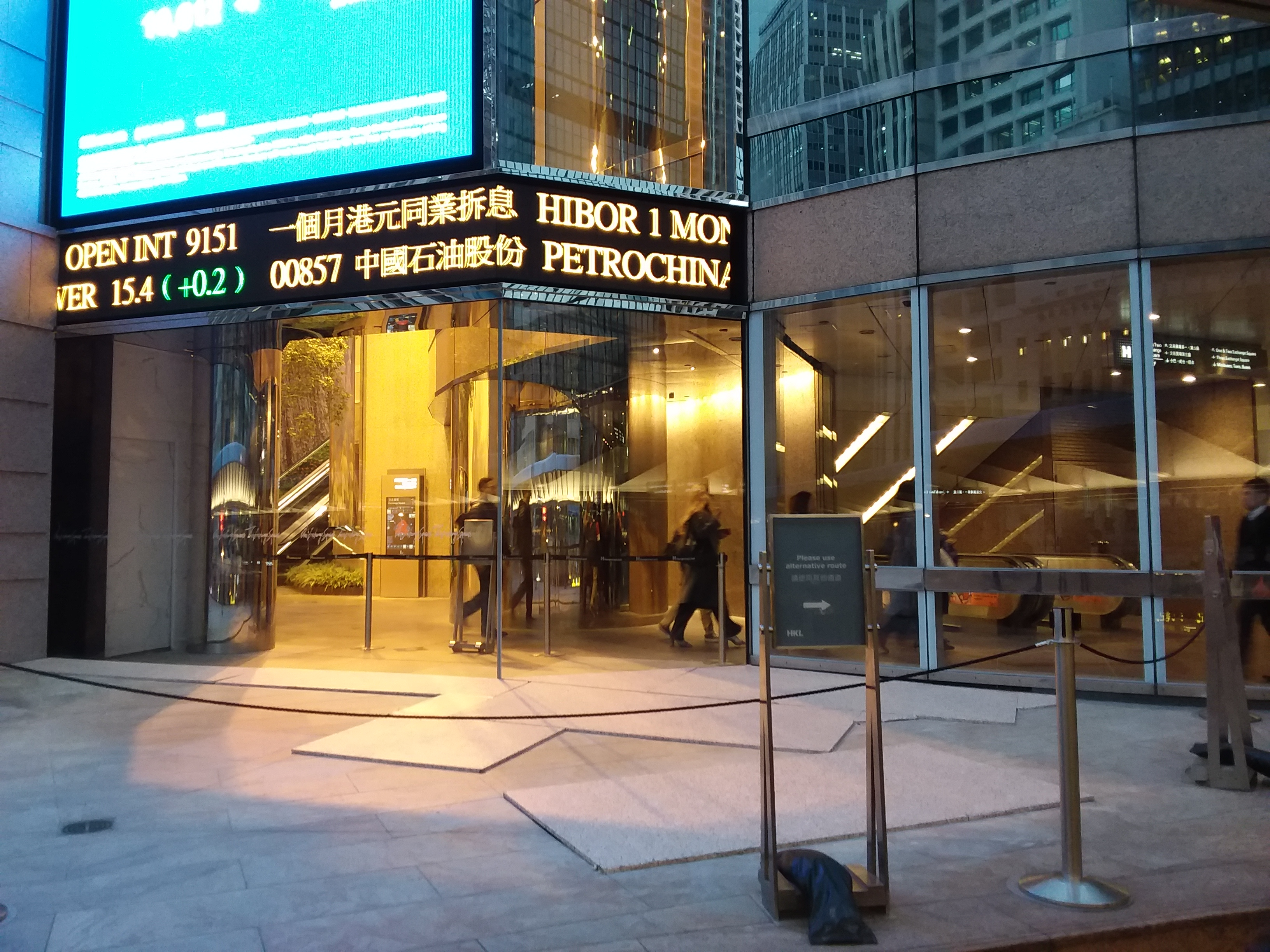 HK 中環 Central evening in January 2019